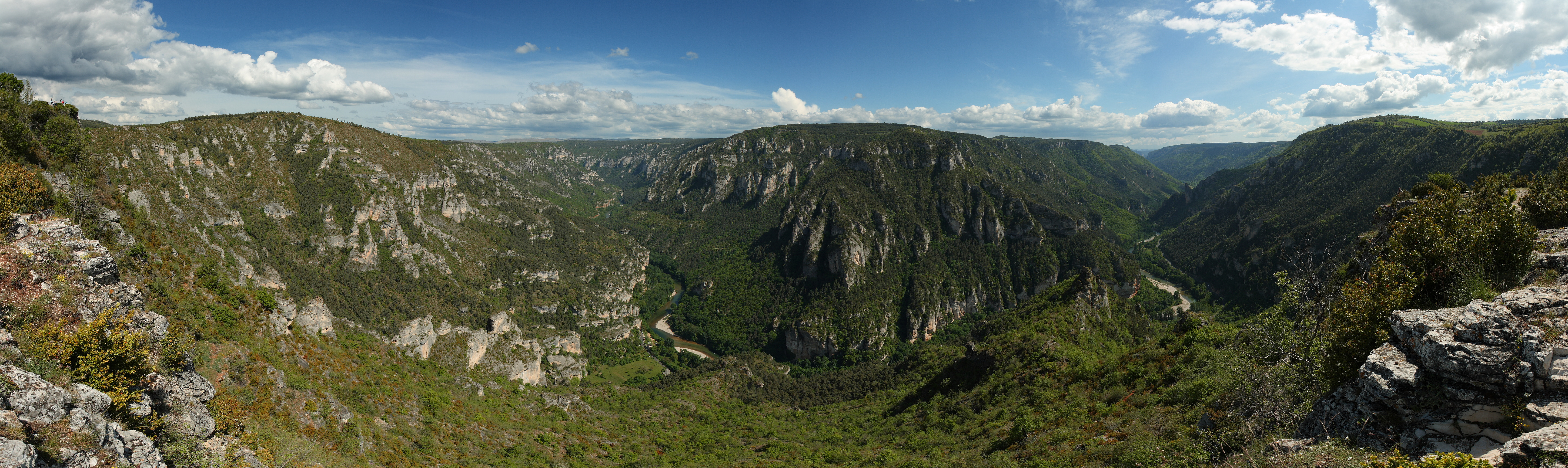 Tarn gorge, taken near the point sublime (which can be seen on the far left). This picture features the Baumes cirque on the left, and the Causse Méjéan plateau on the center. It is a mosaic of 8 photos (2x4) taken with a Canon EOS 400D camera and a EF-S 17-55mm IS f/2.8 lens set at 17mm. Exposition 1/320s, f/8.0 and ISO 100. Resulting horizontal field of view is 248°. Stitching was done with Hugin OS X and Enblend 3.